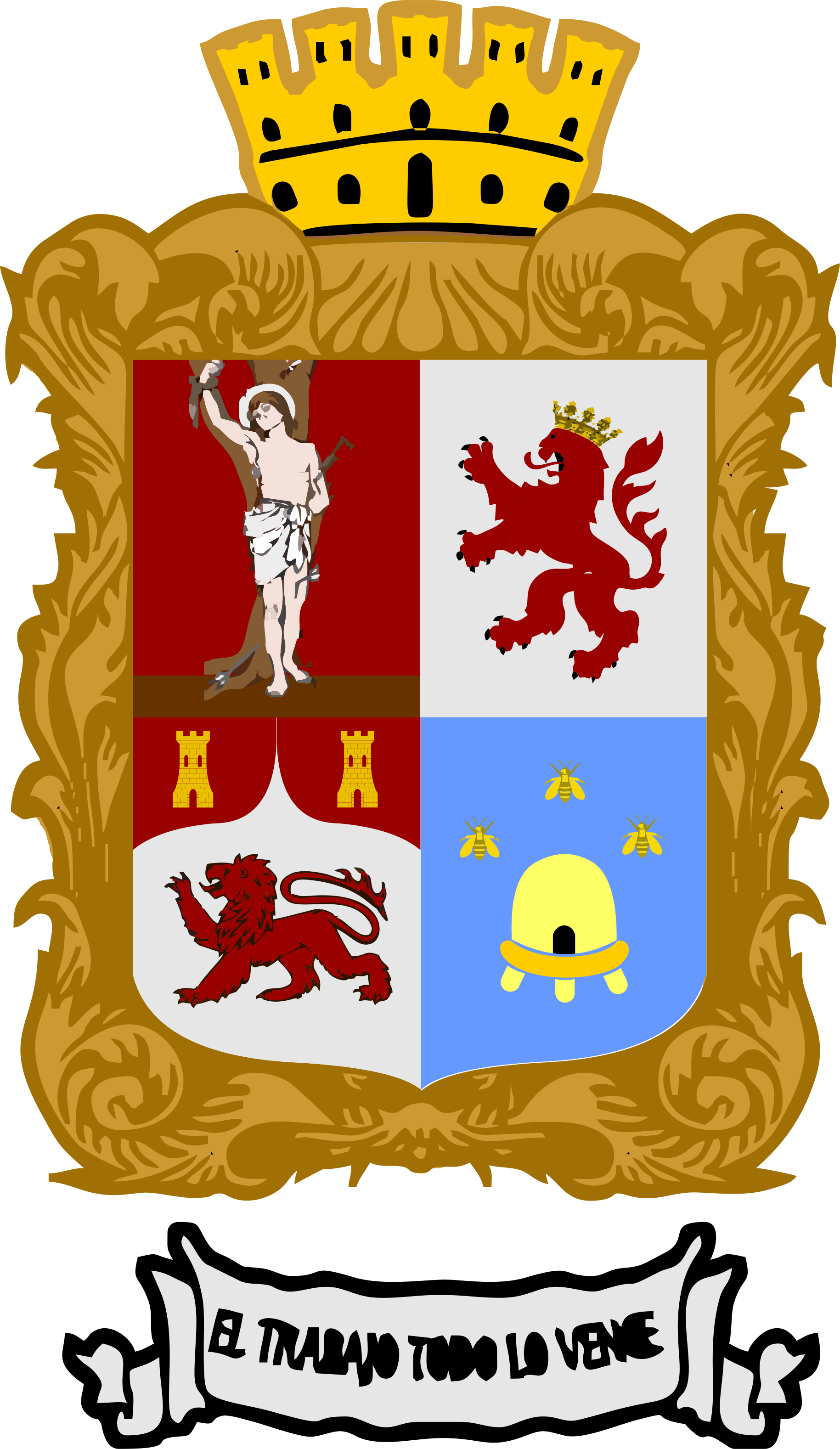 El escudo que simboliza al Municipio fue adoptado en el siglo XX; contiene en su parte superior un “Torreón” que es el símbolo de la ciudad. En el primer cuartel está San Sebastián, Patrono de León, ya que la ciudad se fundó en día 20 de enero, fecha en que se le venera. El segundo cuartel tiene al “León de Castilla“, lugar de donde se tomó el nombre del municipio. En el tercer cuartel se encuentra el escudo del Virrey, Don Martín Enríquez de Almanza, a quien se le debe el mandamiento para que León fuera fundado en 1576. El último cuartel es un panal y abejas en punta, que significa la laboriosidad. En su parte inferior aparece una cinta con el lema de la ciudad, “Labor Omnia Vincit” en latín, o “El Trabajo Todo lo Vence” en español.